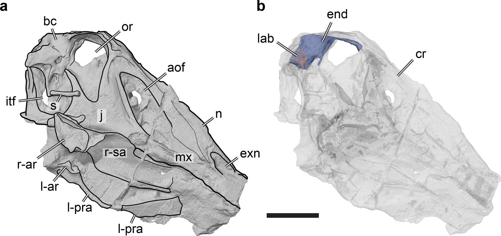 3D renderings of the holotype fossil of Irritator challengeri (SMNS 58022) in right lateral view. (a) solid rendering of the skull with interpretative line drawing indicating gross anatomy; (b) transparent rendering of the skull with solid rendering of the cranial endocast and endosseous labyrinth. Note that the skull is inclined according to the ‘alert’ head pos-ture inferred by lateral semicircular canal horizontality (see text for details). Scale bar equals 100 mm. Abbreviations: aof, antorbital fenestra; ar, articular; bc, brain-case; cr, cranium; end, cranial endocast; exn, external naris; itf, infratemporal fenestra; j, jugal; l-, indicates left element; lab, endosseous labyrinth; mx, maxilla; n, nasal; or, orbit; pra, prearticular; r-, indicates right element; s, stapes; sa, surangular.